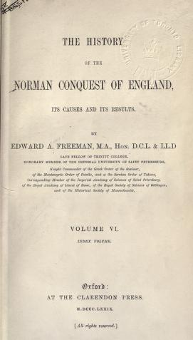 Title page of Edward Augustus Freeman's "History of the Norman Conquest" volume 6 (1879).